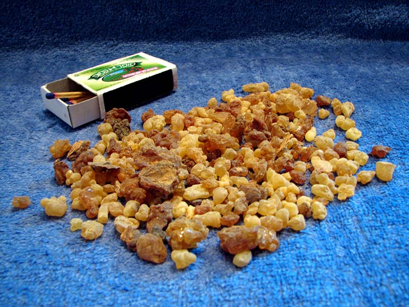 Frankincense and matchbox